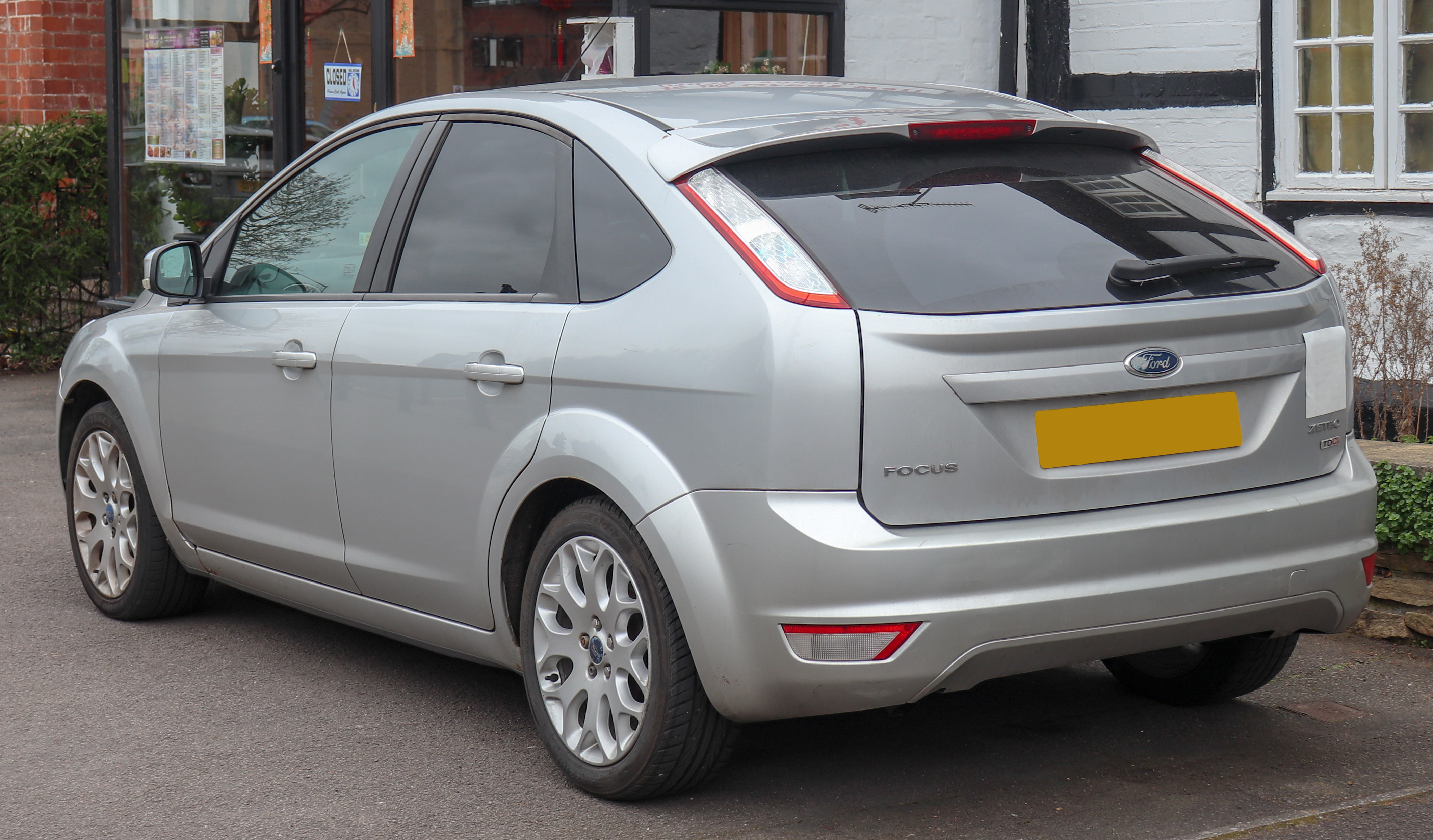 2008 Ford Focus Zetec TD 109 1.6 Rear Taken in Warwick